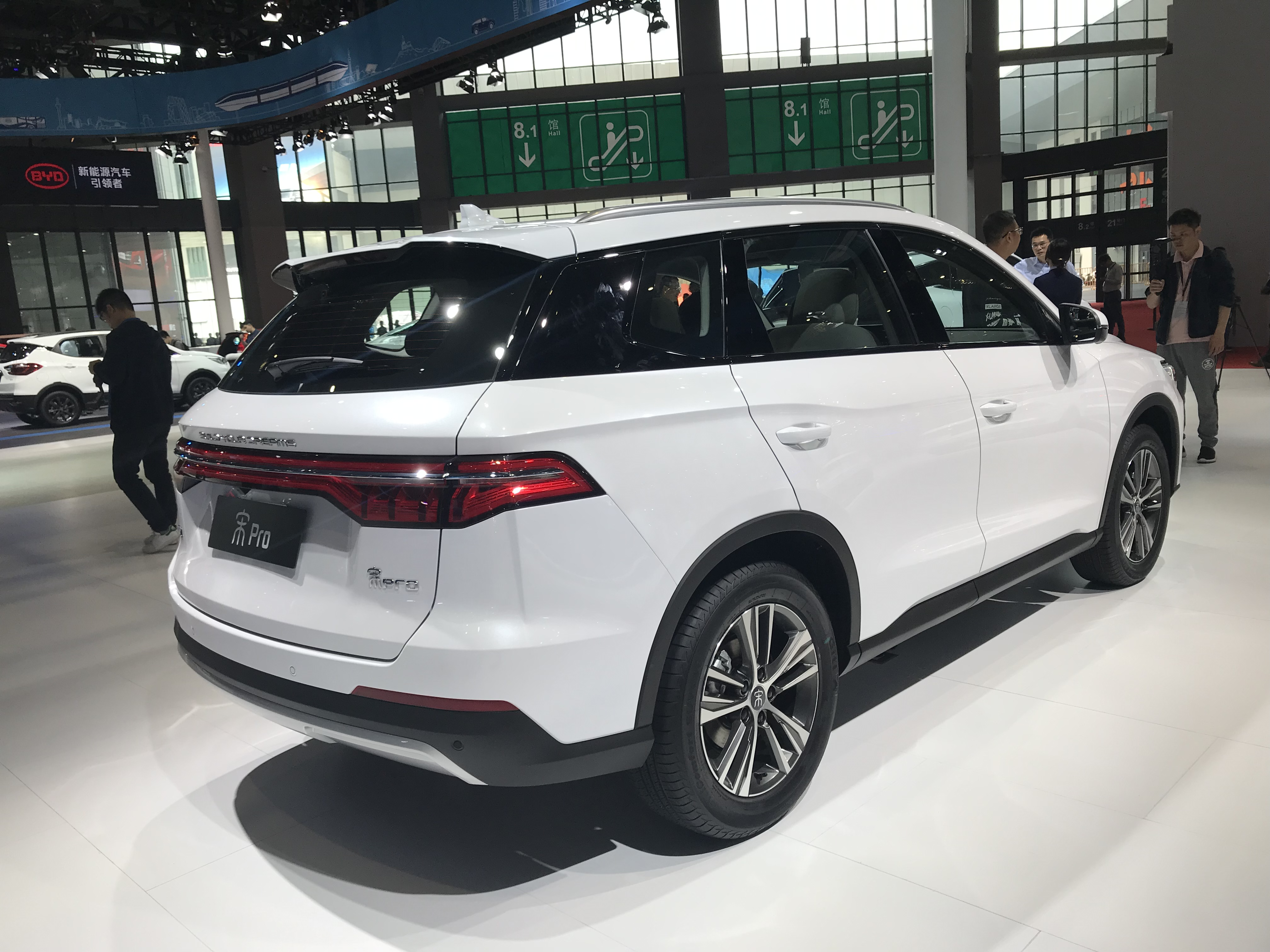 BYD Song Pro rear